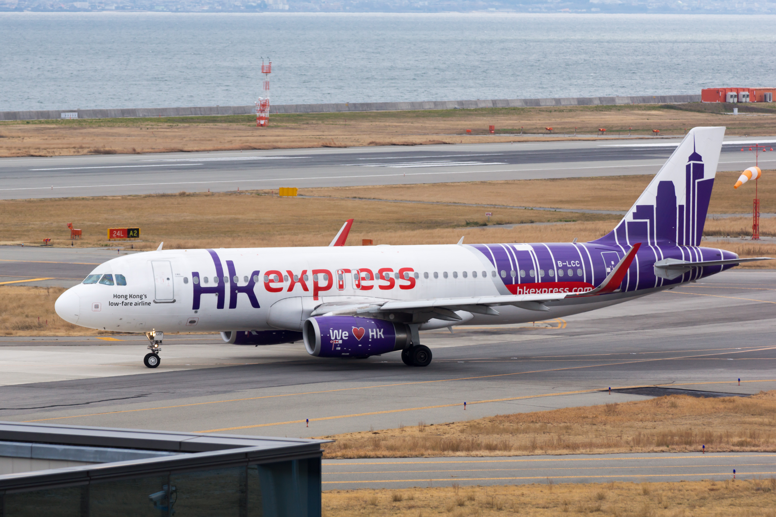 HK Express / 香港快運航空 / 香港エクスプレス航空 Airbus A320-232 B-LCC UO1687, Departed to Hong Kong Osaka Kansai Int'l Airport